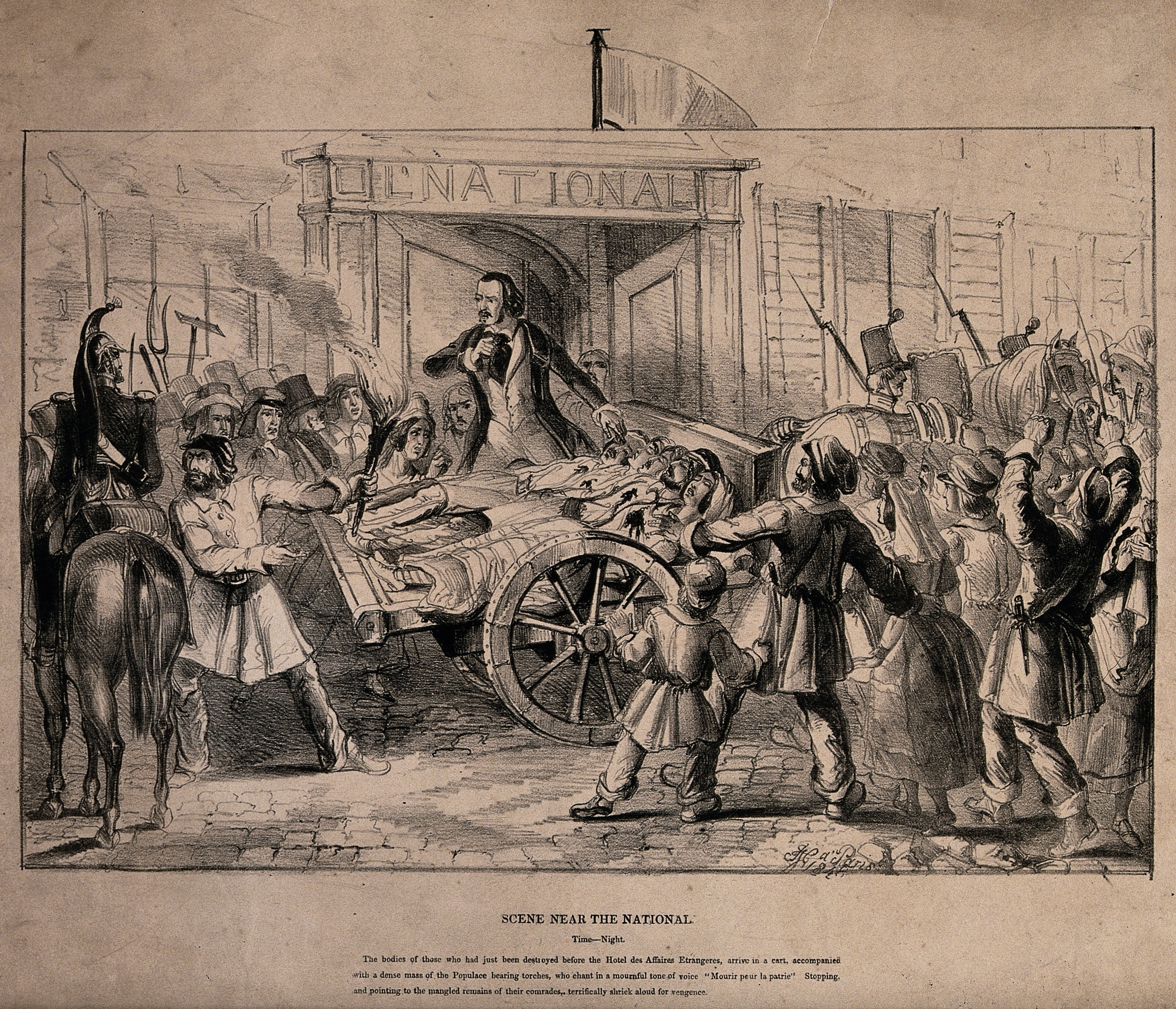 A cart laden with casualties of the French Revolution of 1848 is driven past The National in Paris passing a lamenting crowd. Lithograph. Iconographic Collections